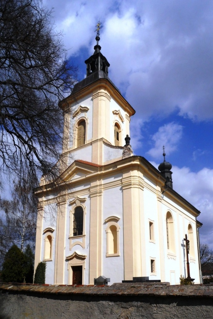 Pnov-Predhradi near Velim, StMary church